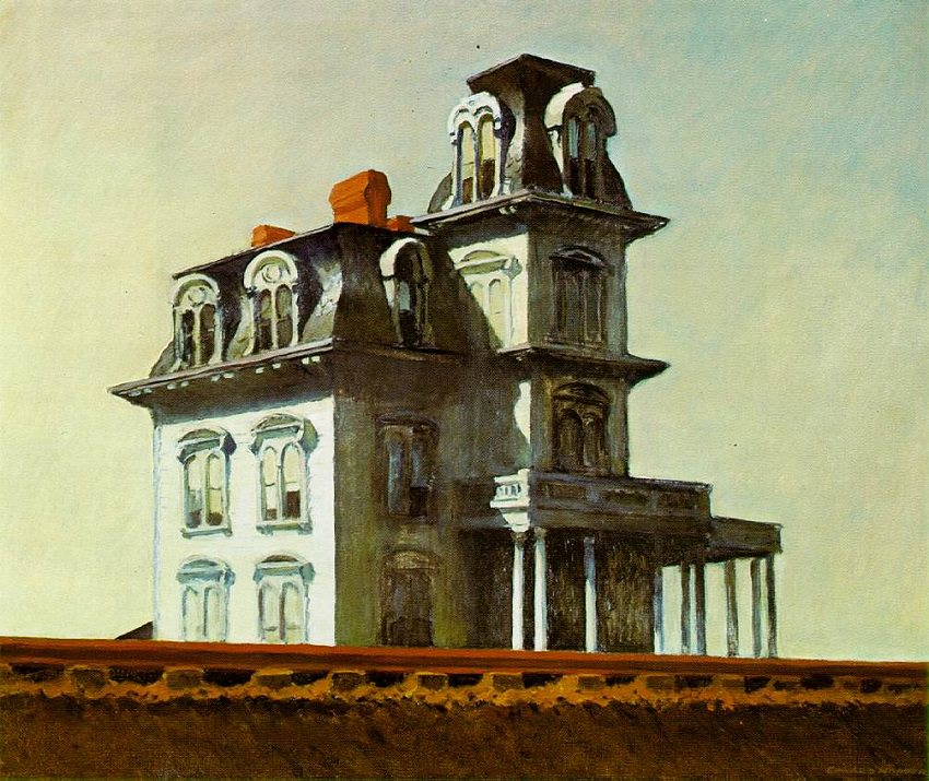 House-by-the-railroad-edward-hopper-1925